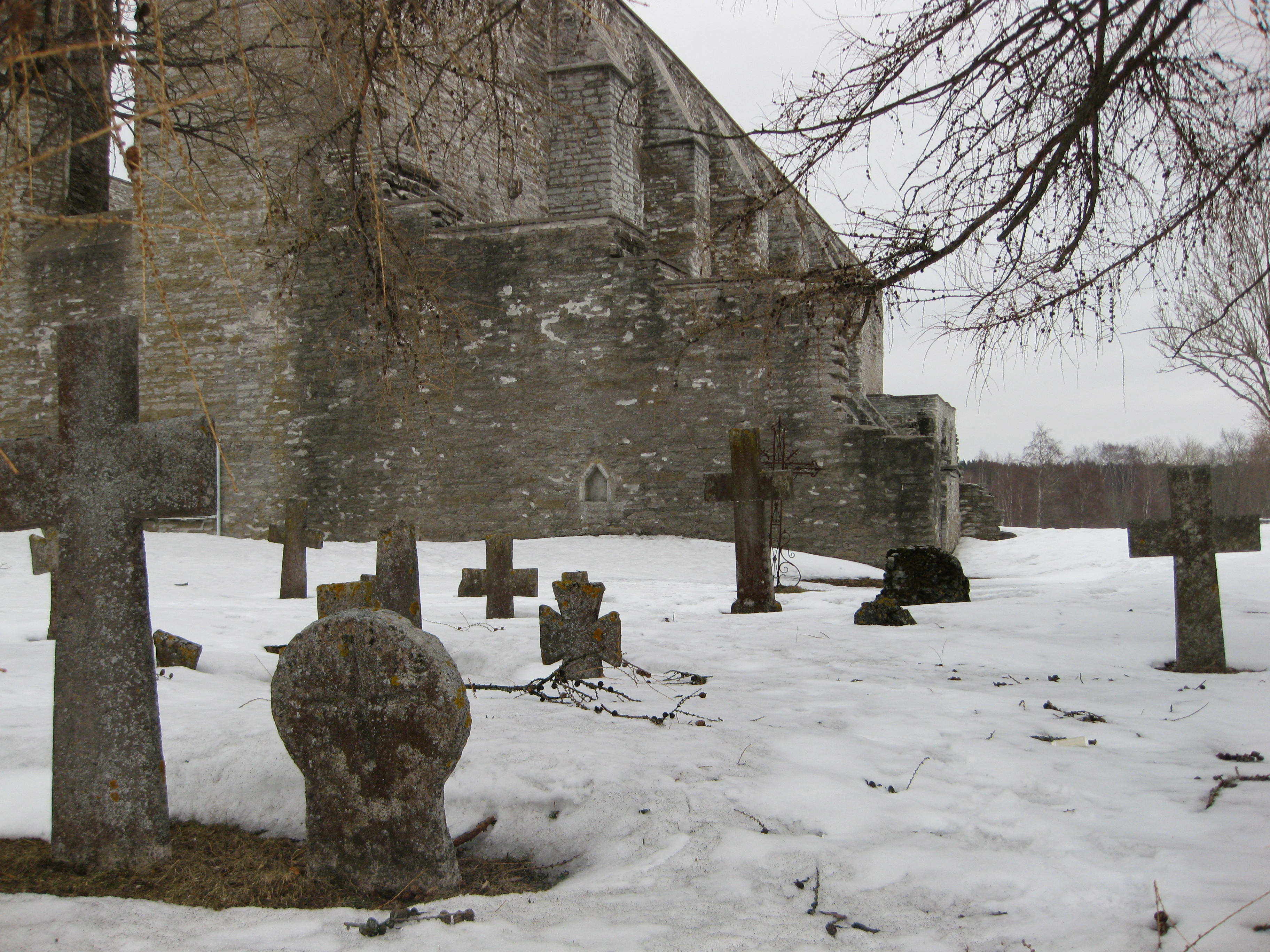 Old church near Tallin